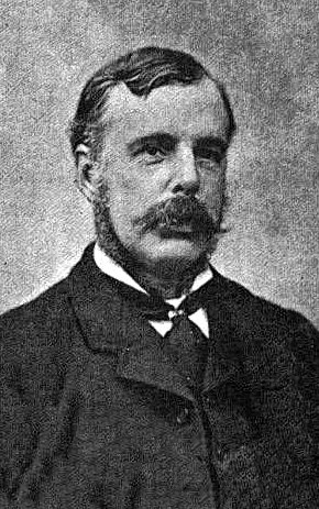 Charles William Alcock